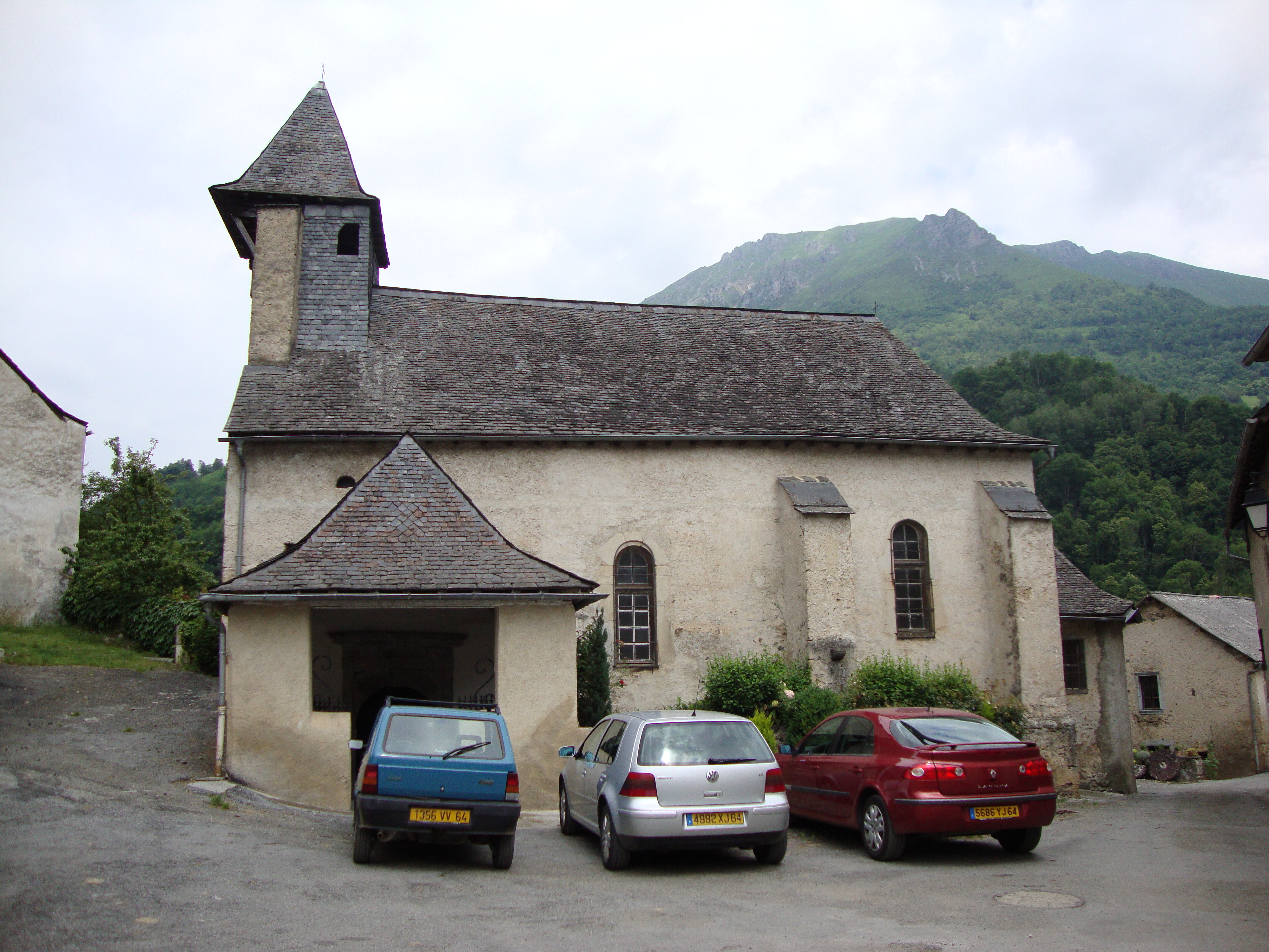 Orcun (Bedous, Pyr-Atl, Fr) chapel